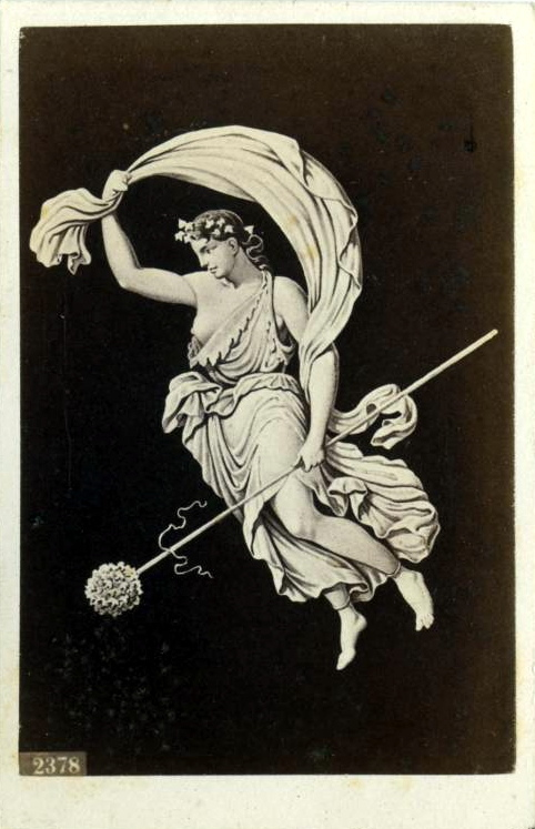 Giorgio Sommer (1834-1914) & Edmond Behles (1841-1924), A maenad. Photograph of a drawing taken from a fresco from Pompeii. Catalogue # 2378 .